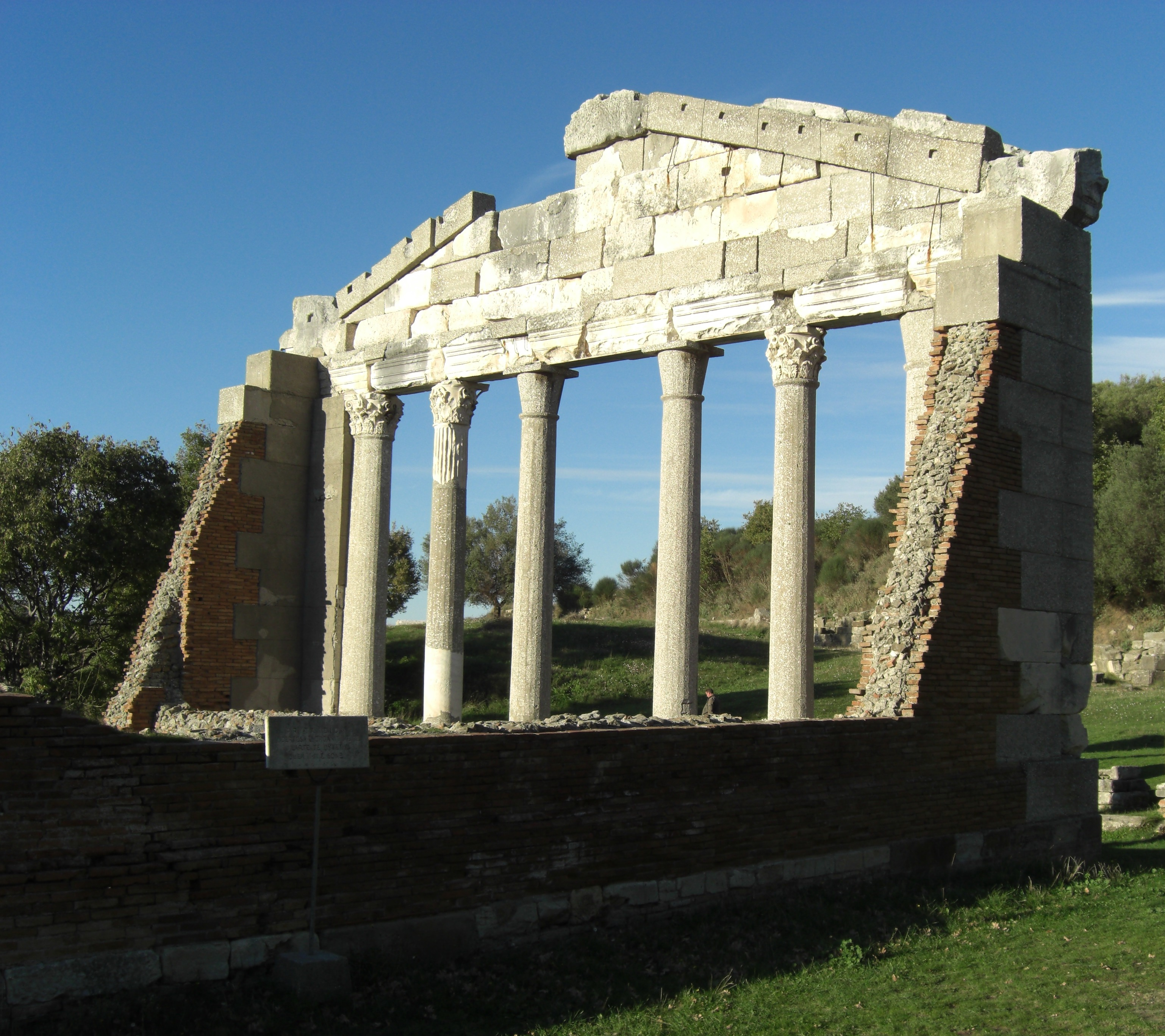 Apollonia - Shqiperise,Ancient Greek Colony